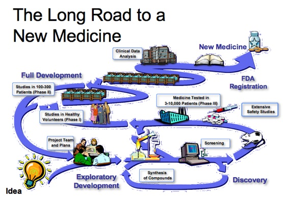 Monoclonal_antibodies_smaller.jpg